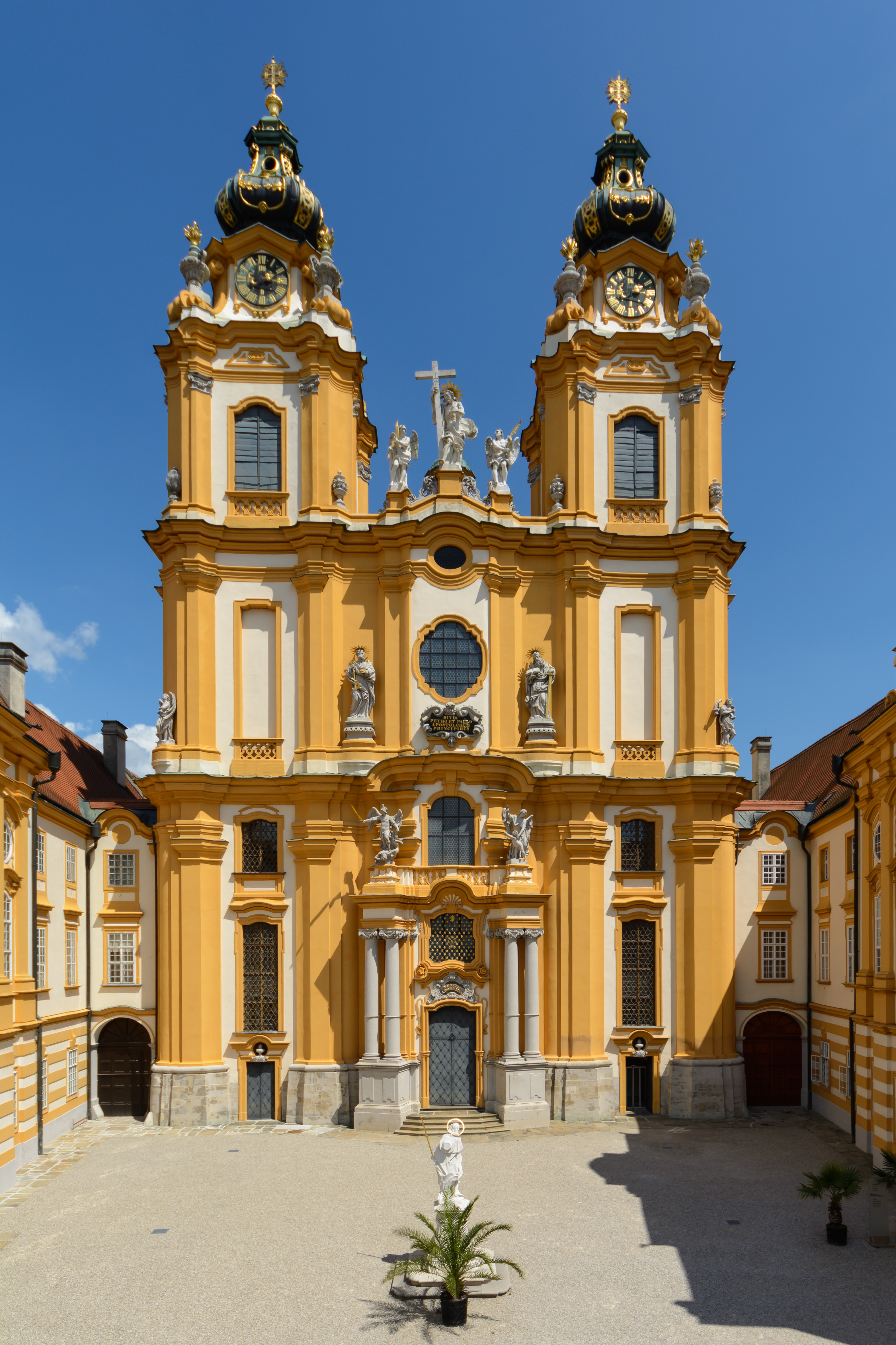 West façade of Melk Abbey Church, Lower Austria